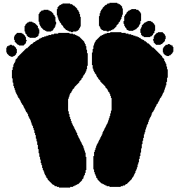 foot prints